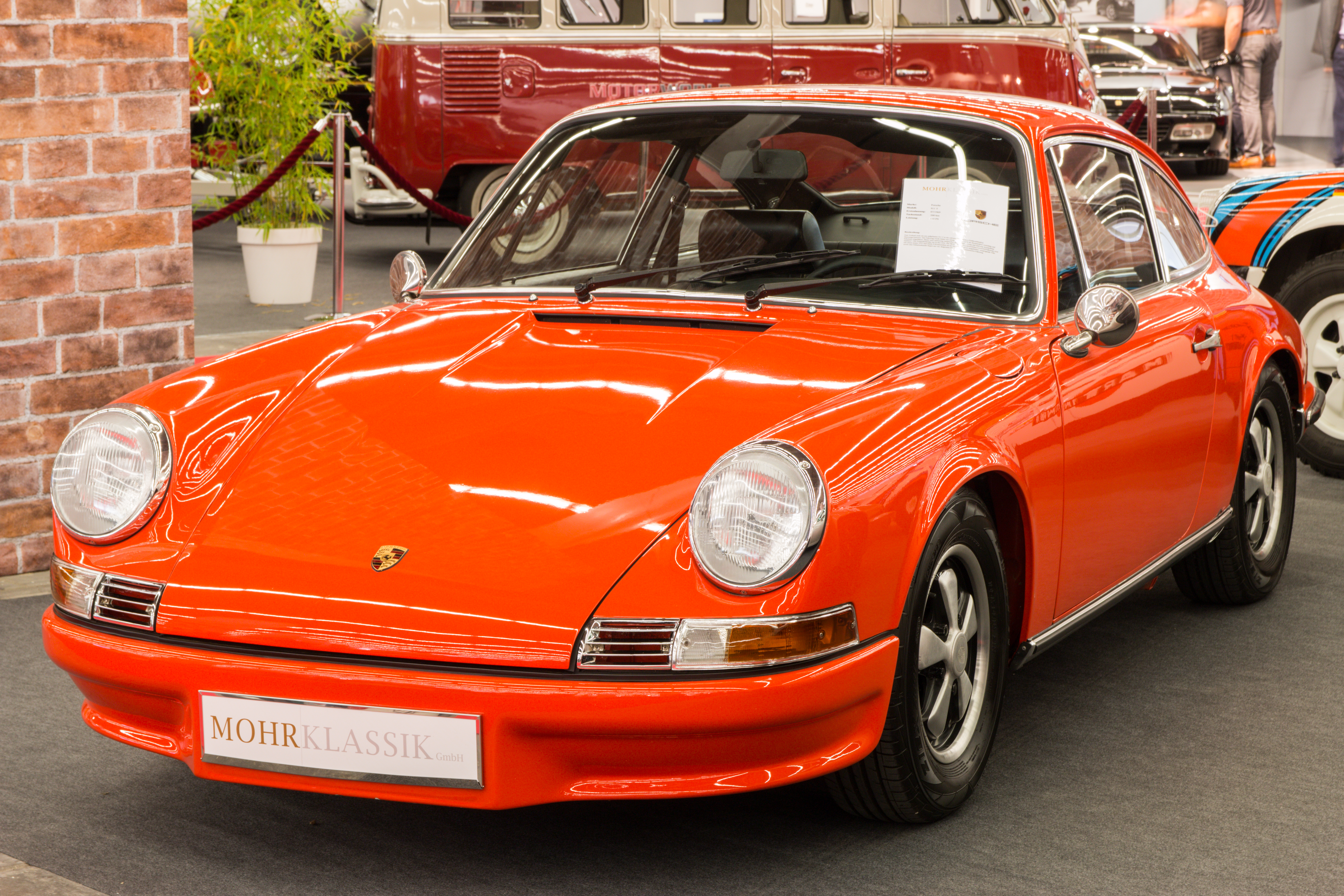 Porsche 911 T C-model, 81 kW, 1991 cm³, July 1969